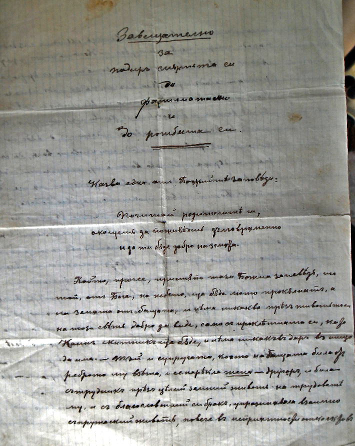 Will of Dimitar Trapkov 1897